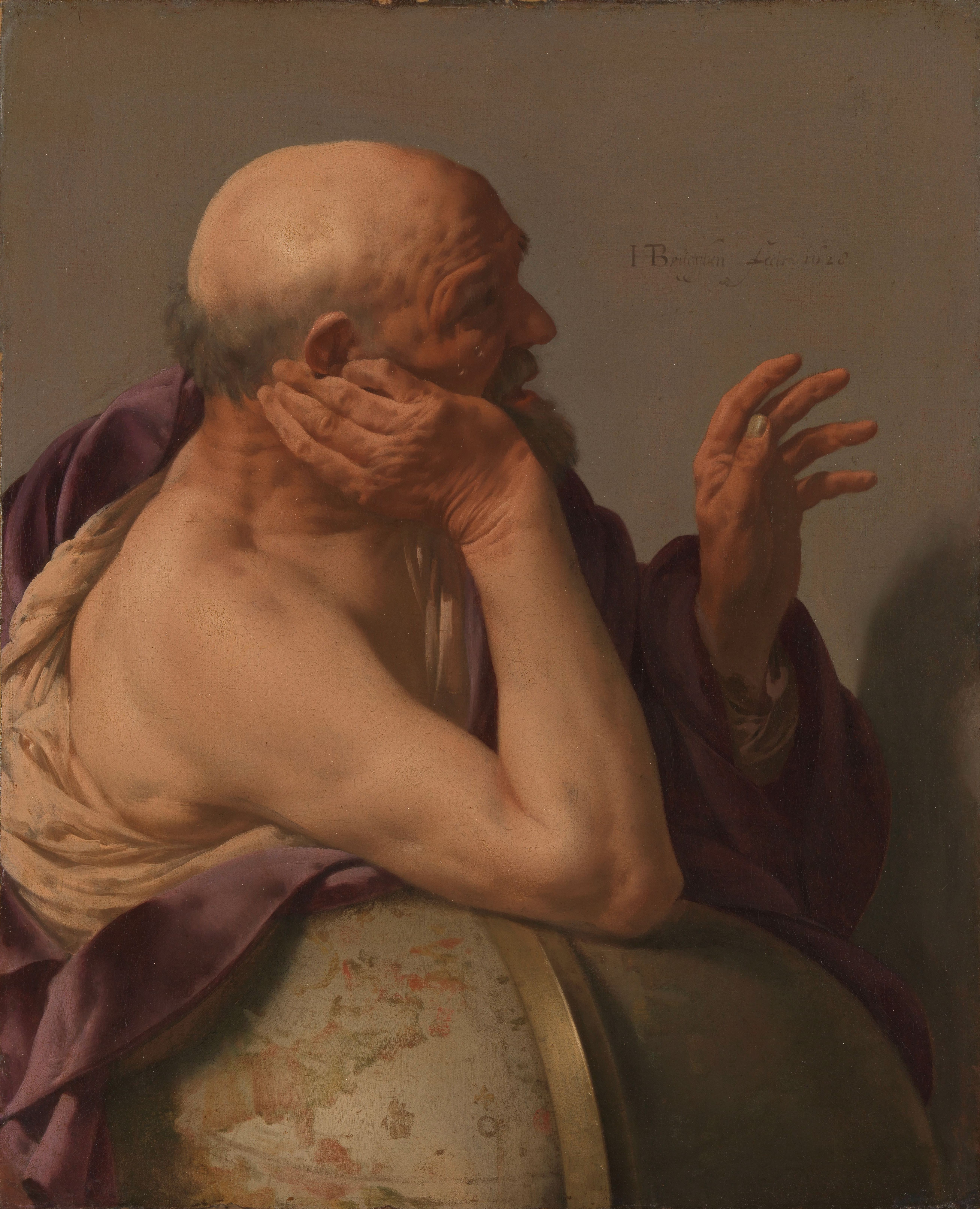 Heraclitus, talking and gesturing while he is leaning on a globe with his right arm.